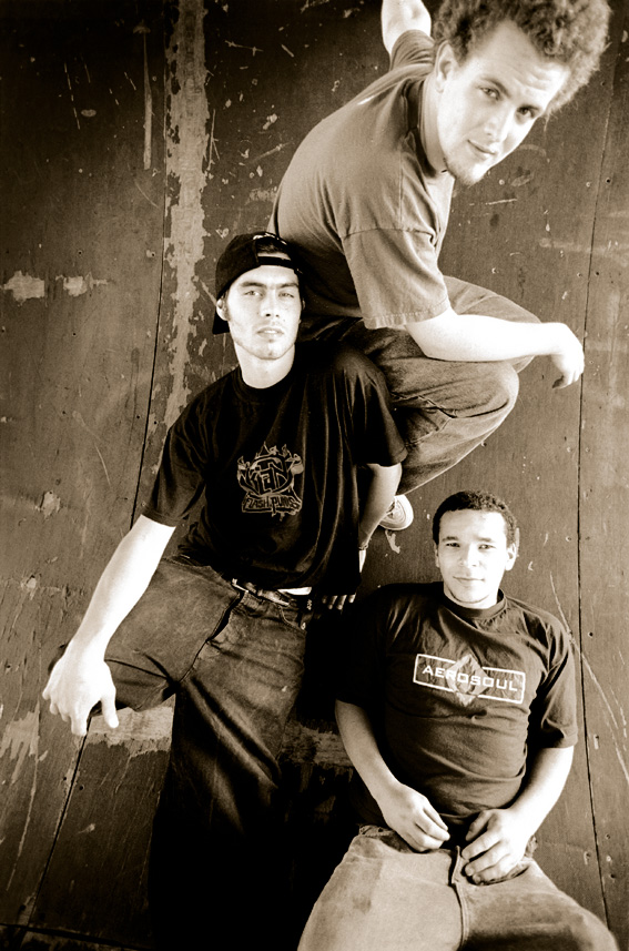 Ruhrpott 1999